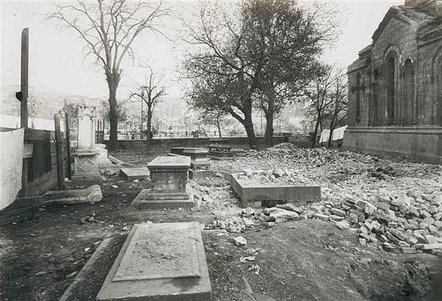 Vanqi Church, old Tbilisi